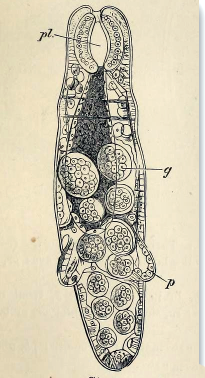 Stages in the life history of a fluke : a young redia (natural size : 1/2 mm); pl) pharynx; g) contained germs; p) characteristic posterior processes of the redia